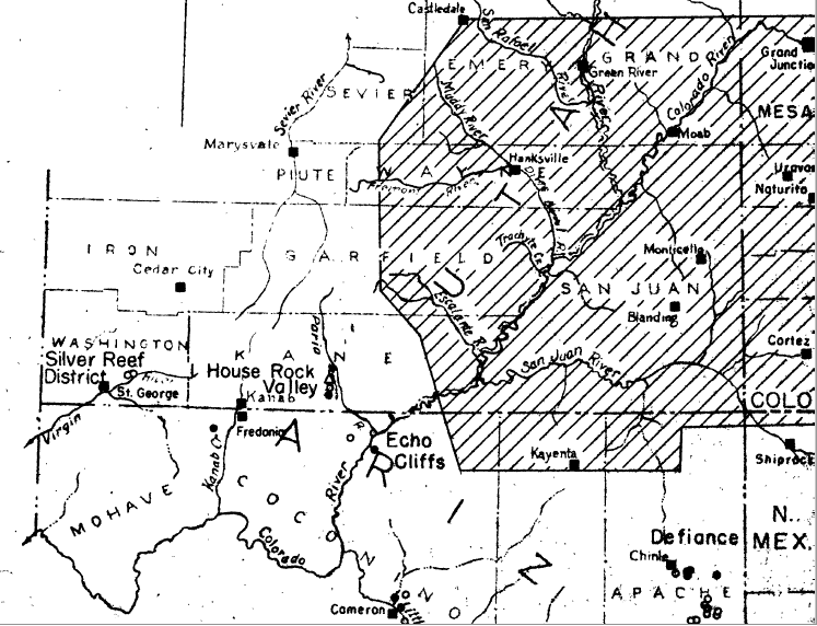 Colorado Plateau Map showing distribution of Triassic uranium deposits. Triangles depict deposits in the Wingate Sandstone, while white and black circles deposit deposits in the Chinle Formation.